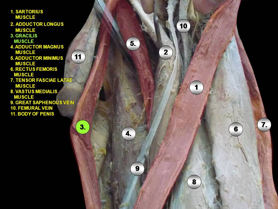 Anatomical dissections